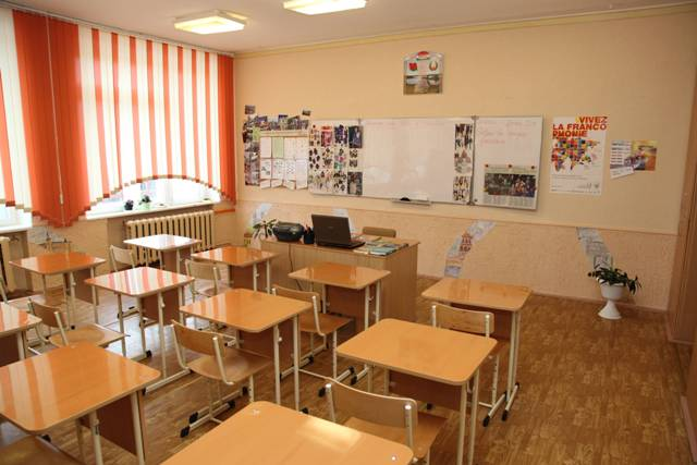 NoveduGimnaziyaA